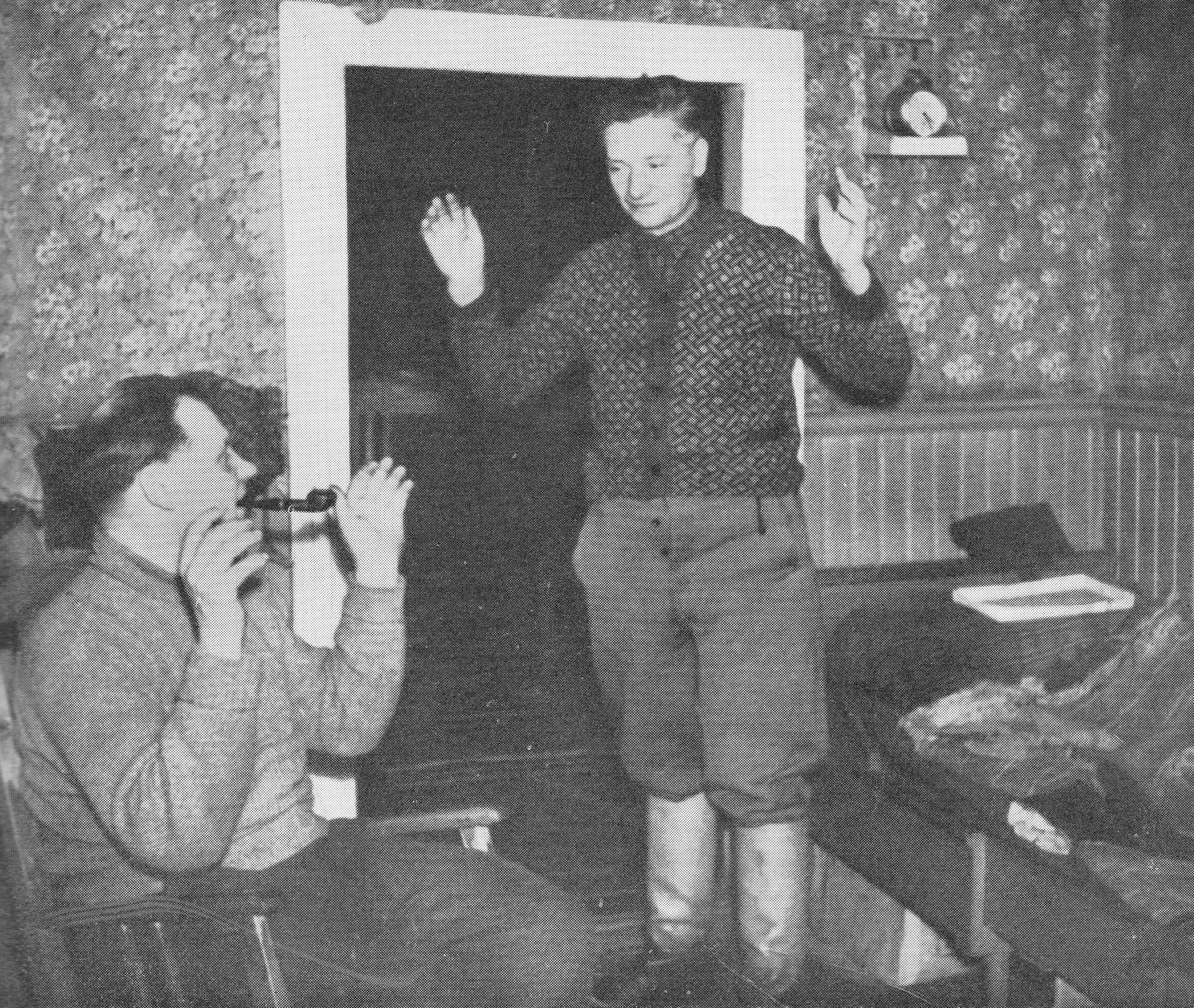 The founder of the Korpela movement, Toivo Korpela (standing), ca 1945